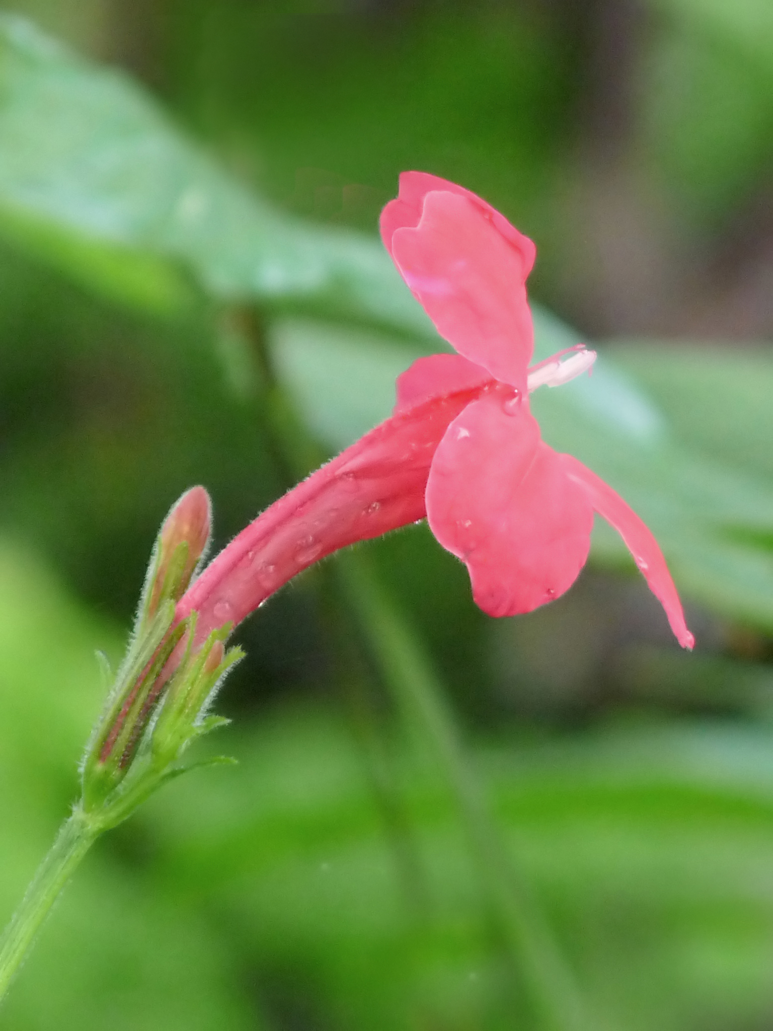 Ruellia is a genus of flowering plants commonly known as Ruellias or Wild petunias. They are not closely related to petunias although both genera belong to the same euasterid clade. The genus was named in honor of Jean Ruelle, herbalist and physician to Francis I of France and translator of several works of Dioscorides. Ruellia elegans [1] (Red ruellia, Brazilian petunia) is native to Brazil. It has bright red leaning toward scarlet (the "Rio Red" variety) trumpet shaped five-petaled 1 to 2 inch flowers which resemble salvia greggi flowers in shape. They appear on 6 to 8 inch wand-like stems. The upper petals tend to flare out and back, while the lower one curls out and downward, a landing pad that leads pollinators to its small white heart. The blooms, loved by butterflies and hummingbirds, appear from May until frost. It will take light frosts and dies back at about 28 degrees. It forms a 12 inch high by 24 inch in diameter mound of soft green, semi-fuzzy foliage. ↑